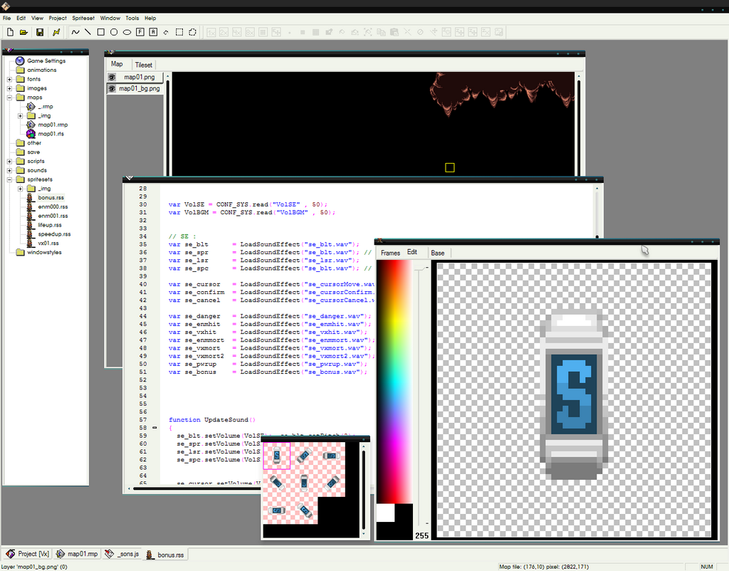 Sphere IDE.png